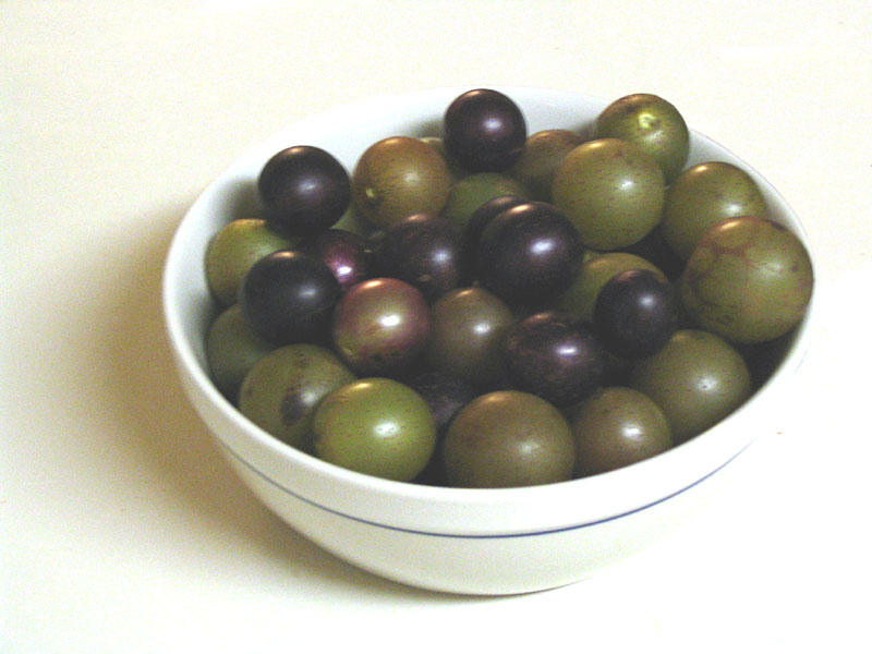 Some muscadines (the red ones) and scuppernongs (the green ones) in a bowl on a countertop. Taken in an apartment in Smyrna, Georgia, United States.